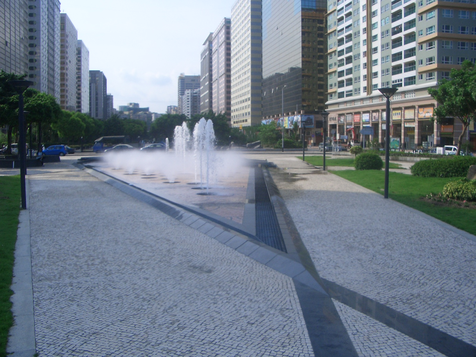 宋玉生公園(photo taken by 9old9)